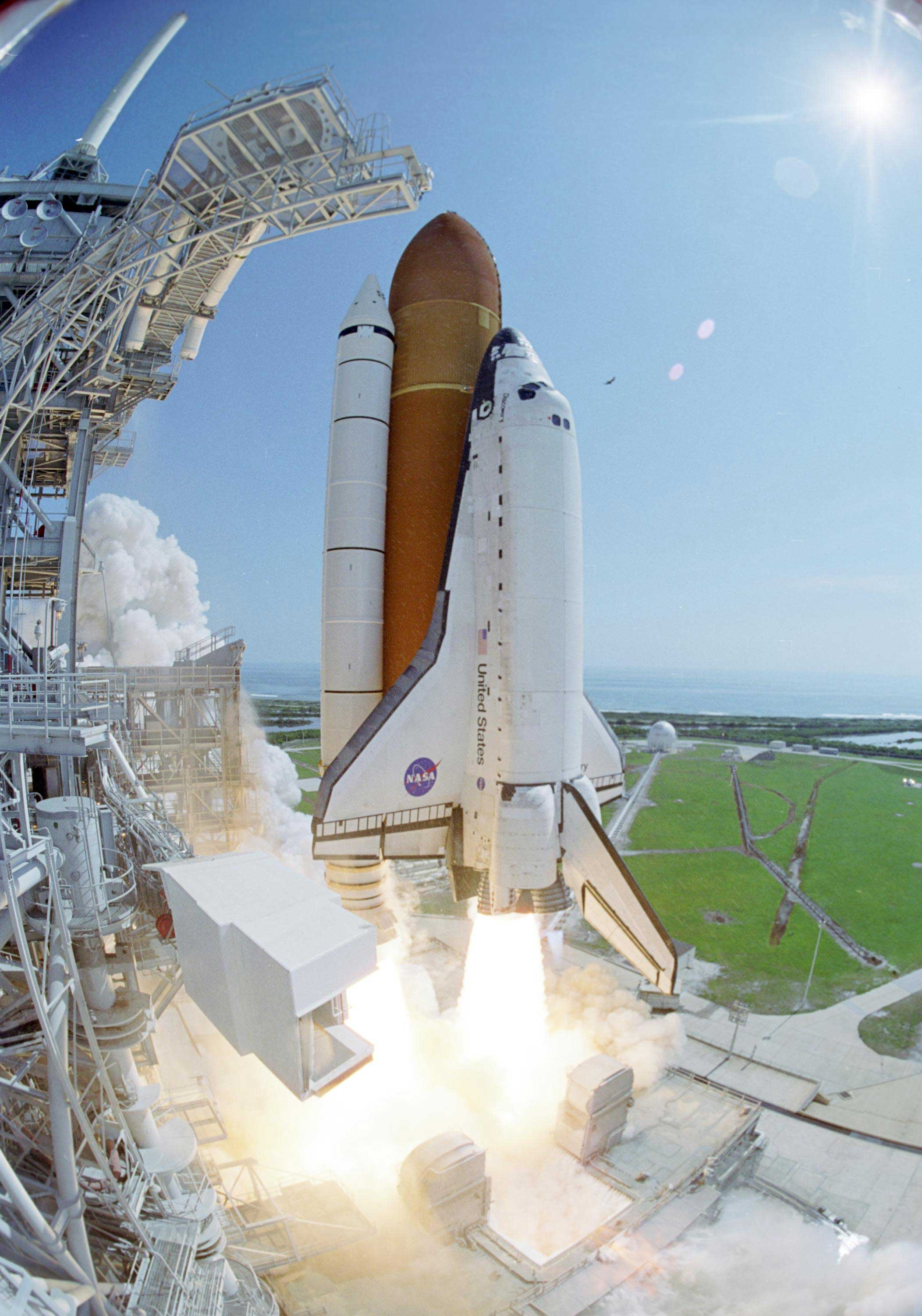 A tracking camera on Launch Pad 39B captures a close-up of Space Shuttle Discovery moments after liftoff on the historic Return to Flight mission STS-114.